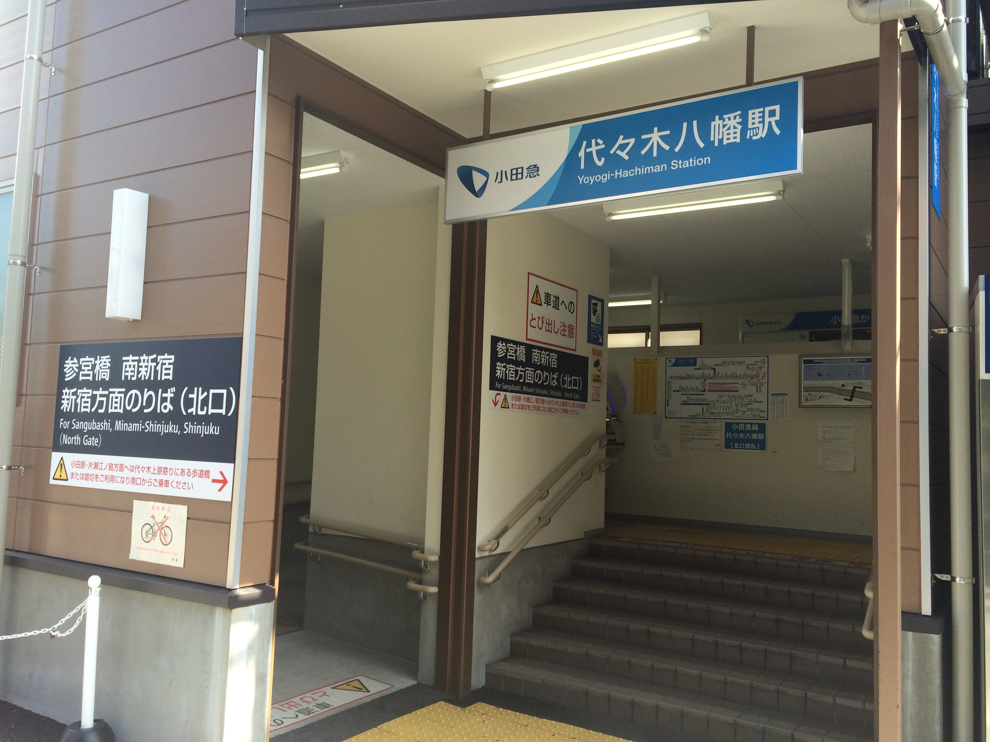 Yoyogi-hachiman Station